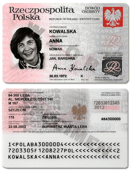 Polish identity card binding before March 1st, 2015 (specimen). The personal data are faked.